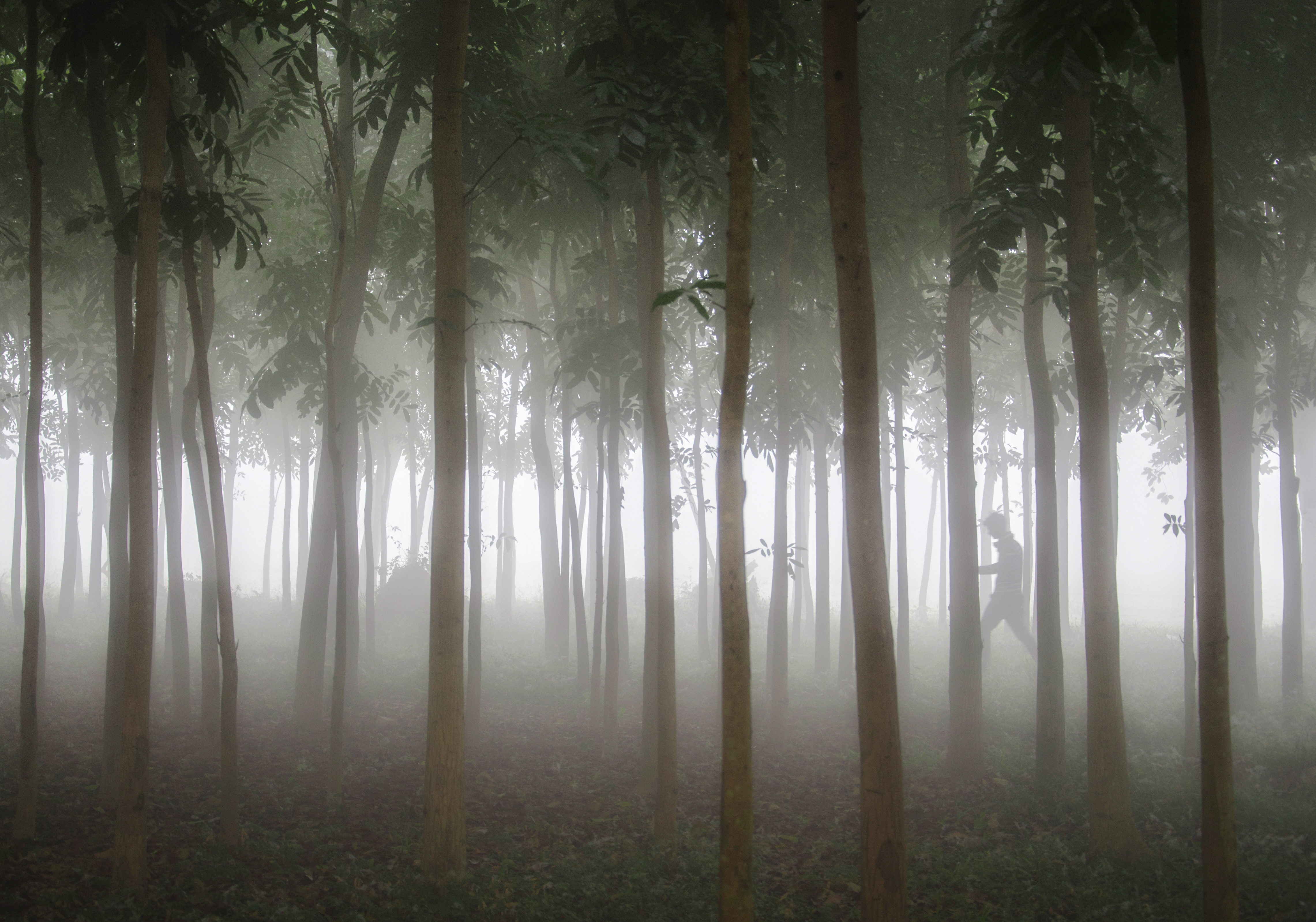 Lawachara National Park during winter